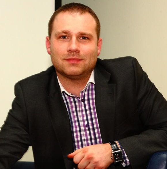 Łukasz Krupa: Congressman in Parliament of Poland